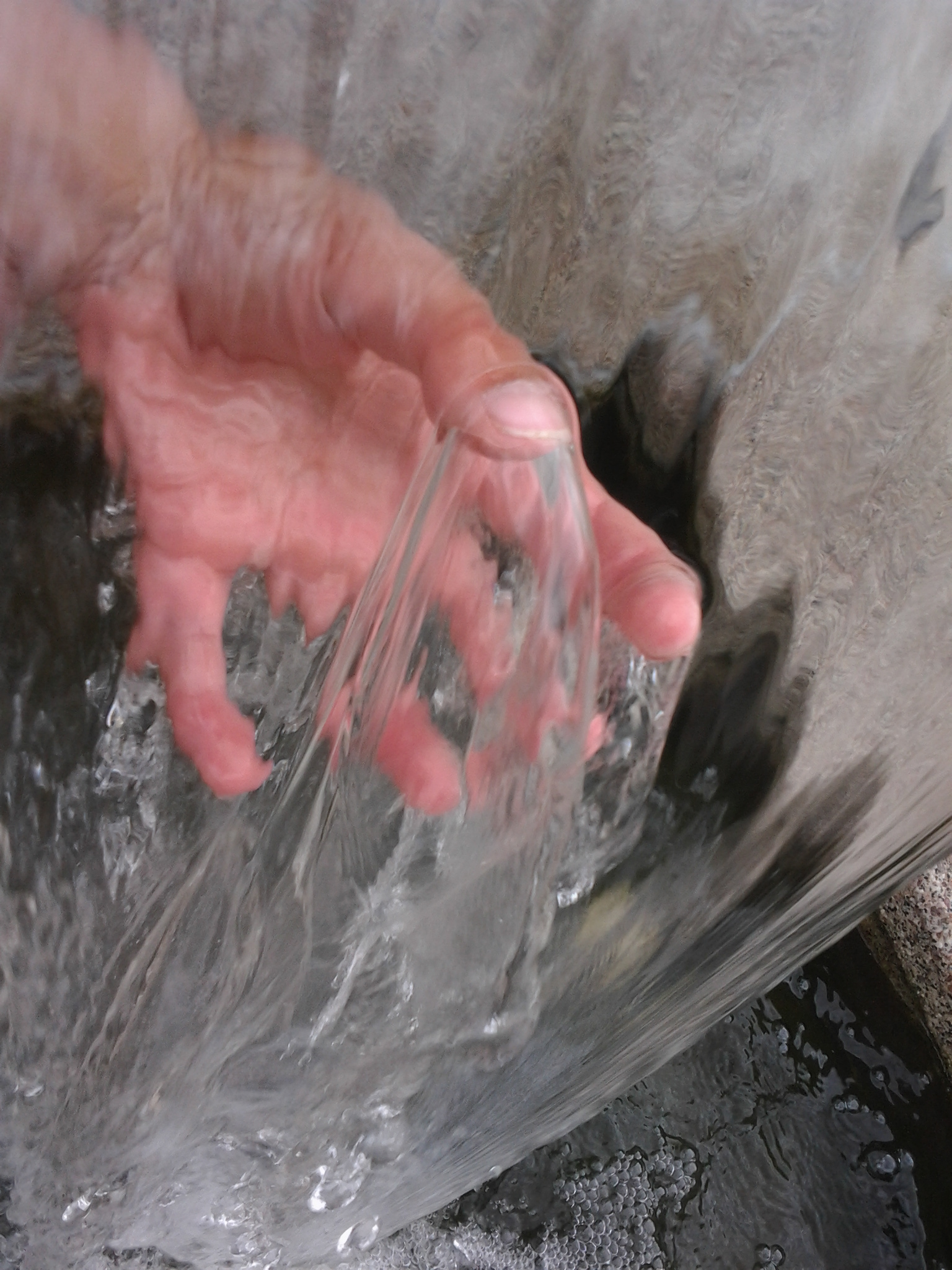 Hand in flowing water